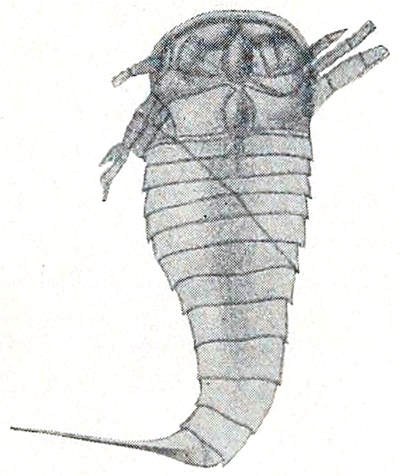 Holotype and only known specimen of the eurypterid species Onychopterella pumilus, then part of Eurypterus.